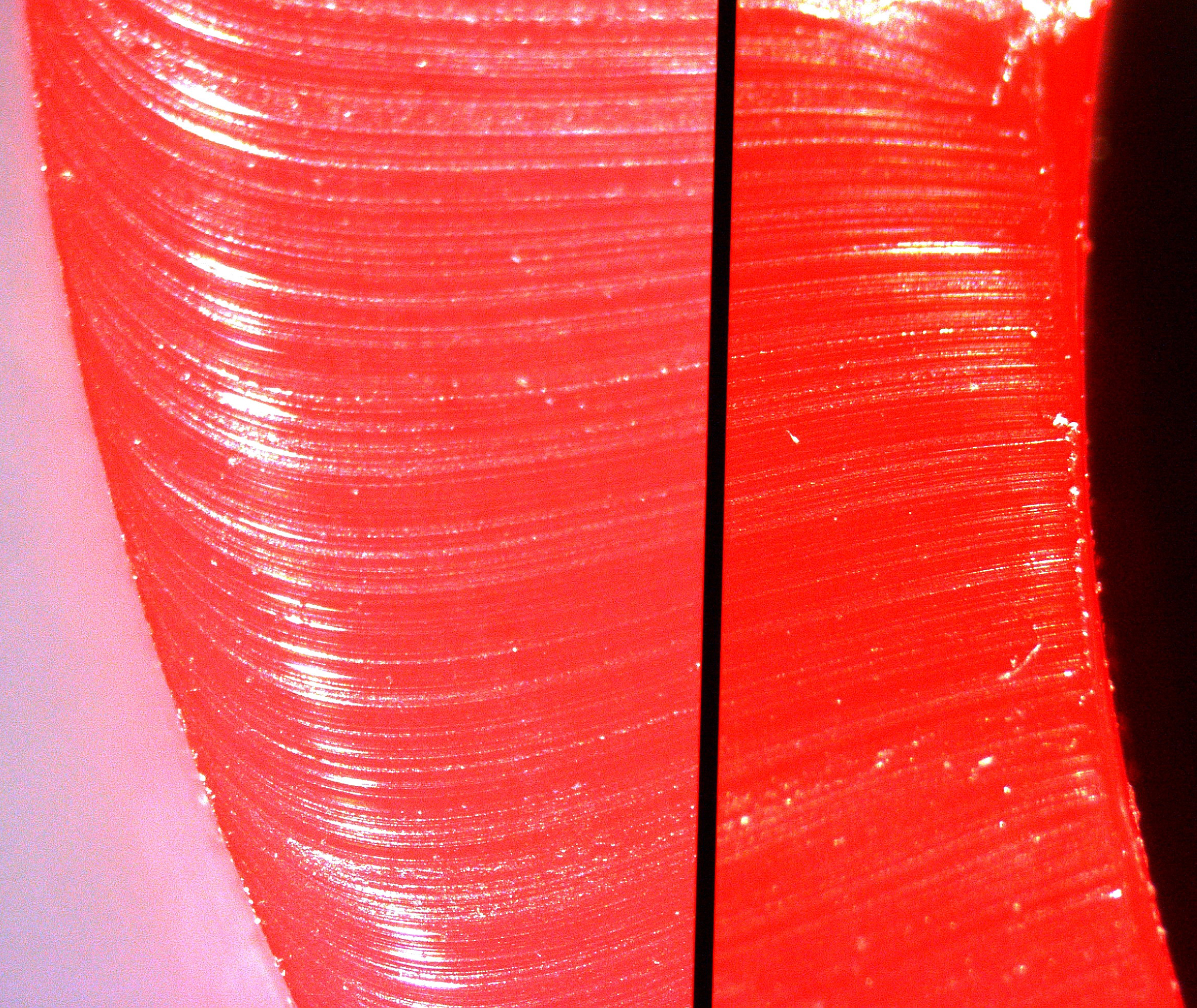 Tool scratch compatibility on cut cables. Forensic examinations